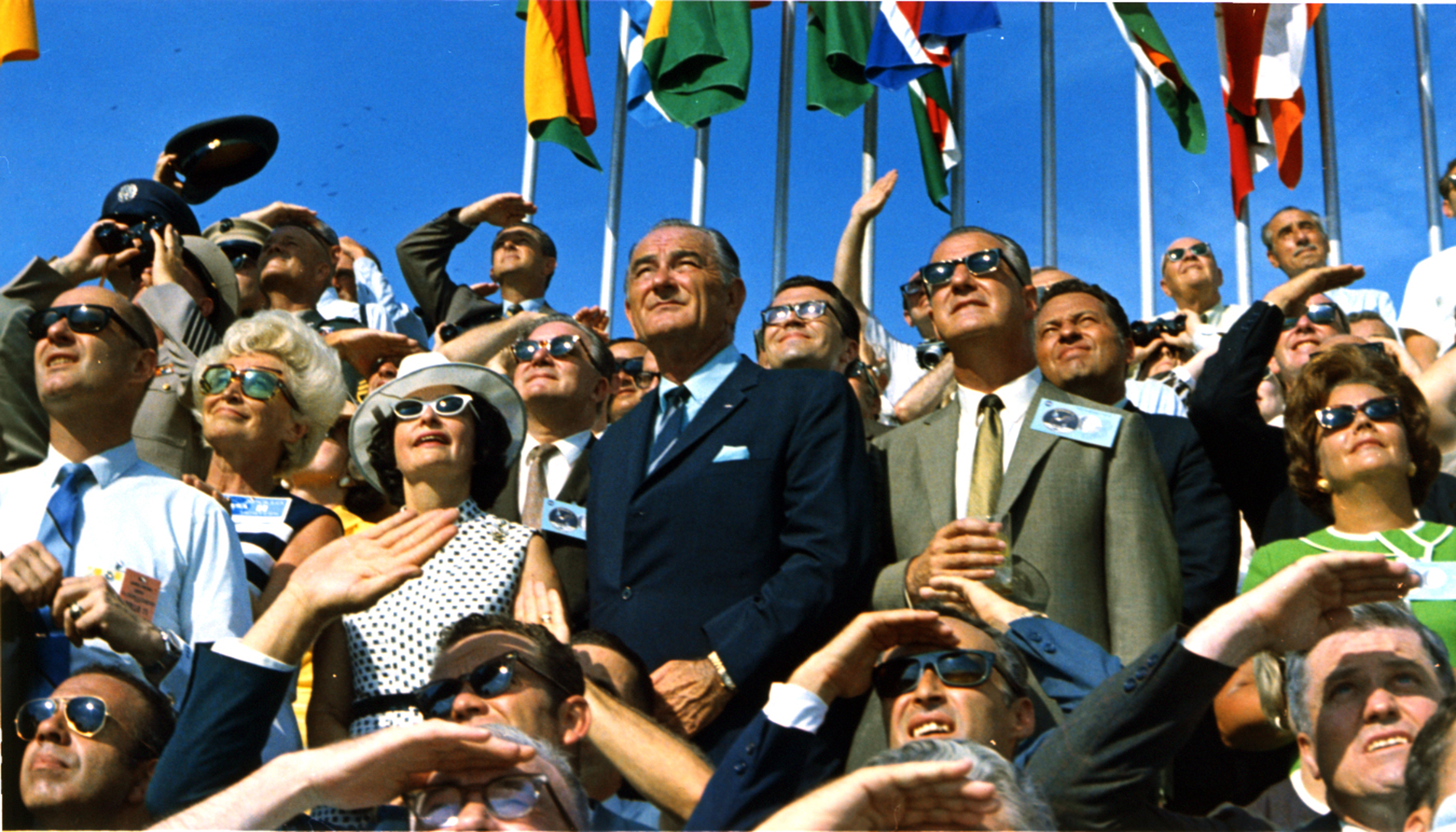 Former President Lyndon B. Johnson (on the left, without sunglasses) and Vice President Spiro Agnew (right, center) view the liftoff of Apollo 11 from pad 39A at Kennedy Space Center at 9:32 am EDT on July 16, 1969.